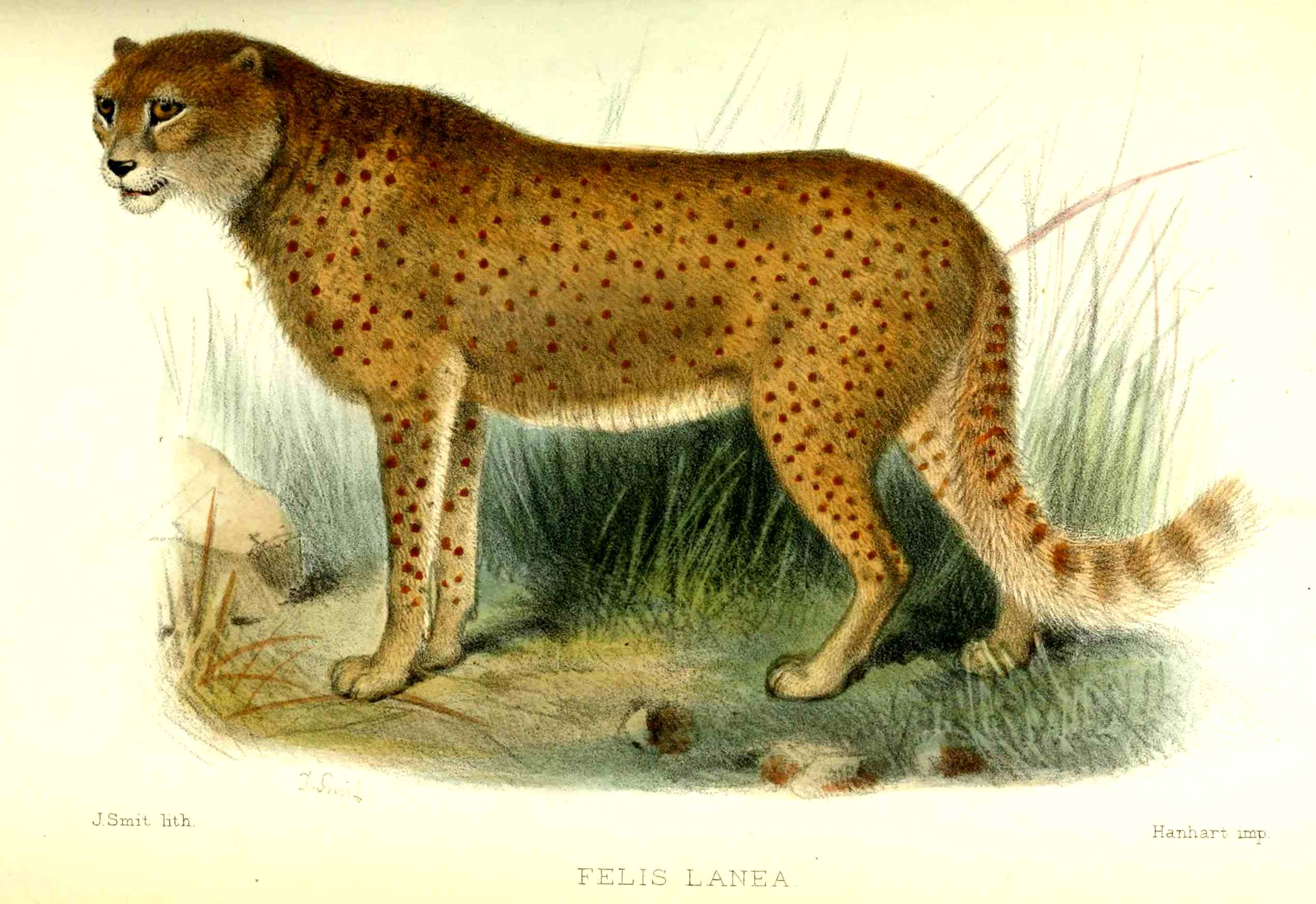 Desert Cheetah ( Acinonyx jubatus ssp. lanea)